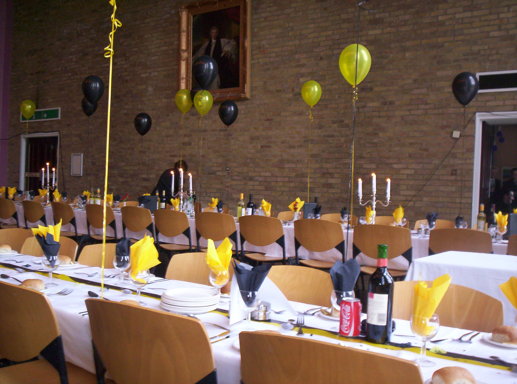 High Table at Mildert Day formal 2008